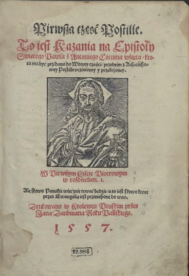 Cover page of Eustachy Trepka's Postil